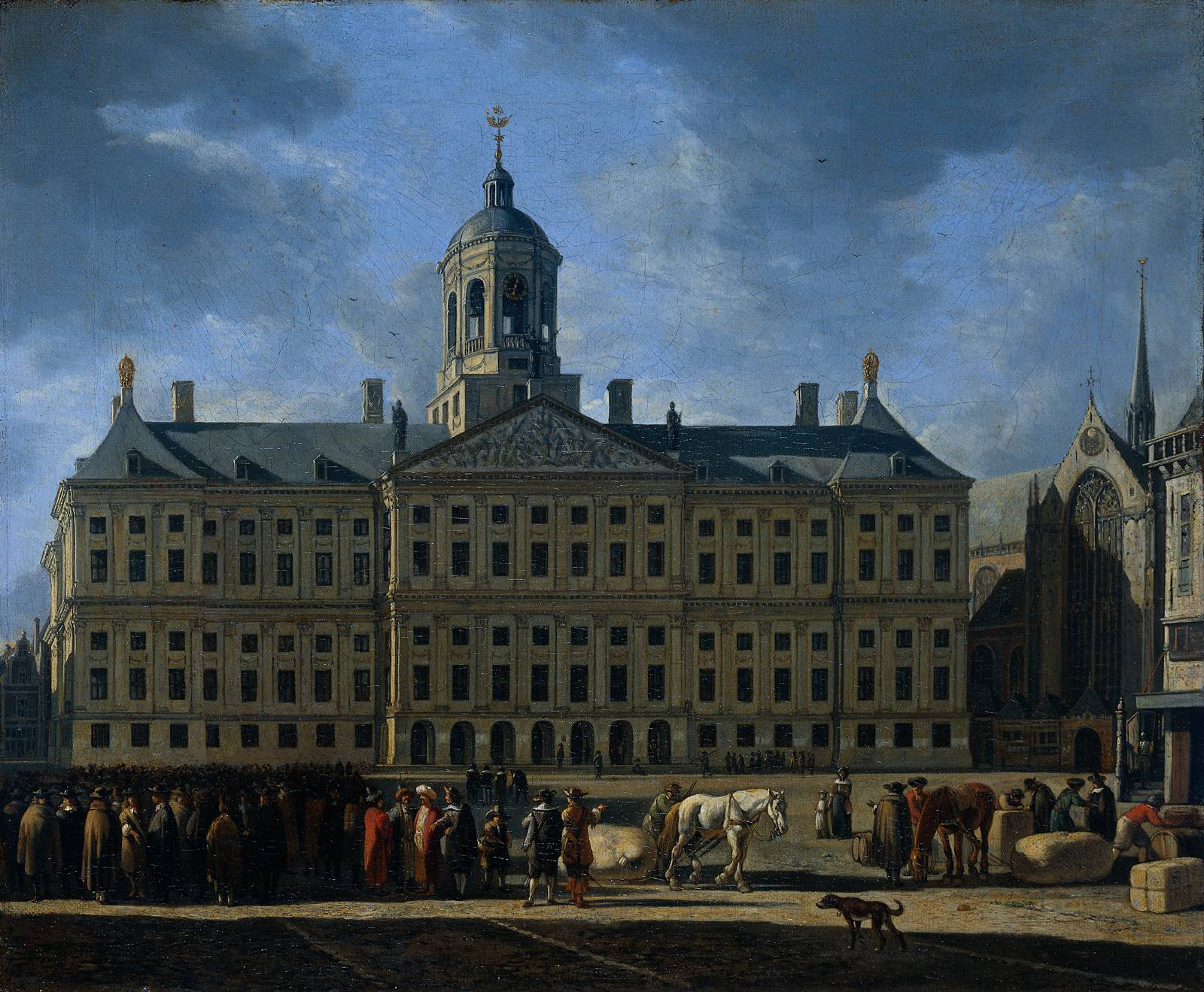 The town hall on Dam Square in Amsterdam. To the right the Nieuwe Kerk and part of the Waag.